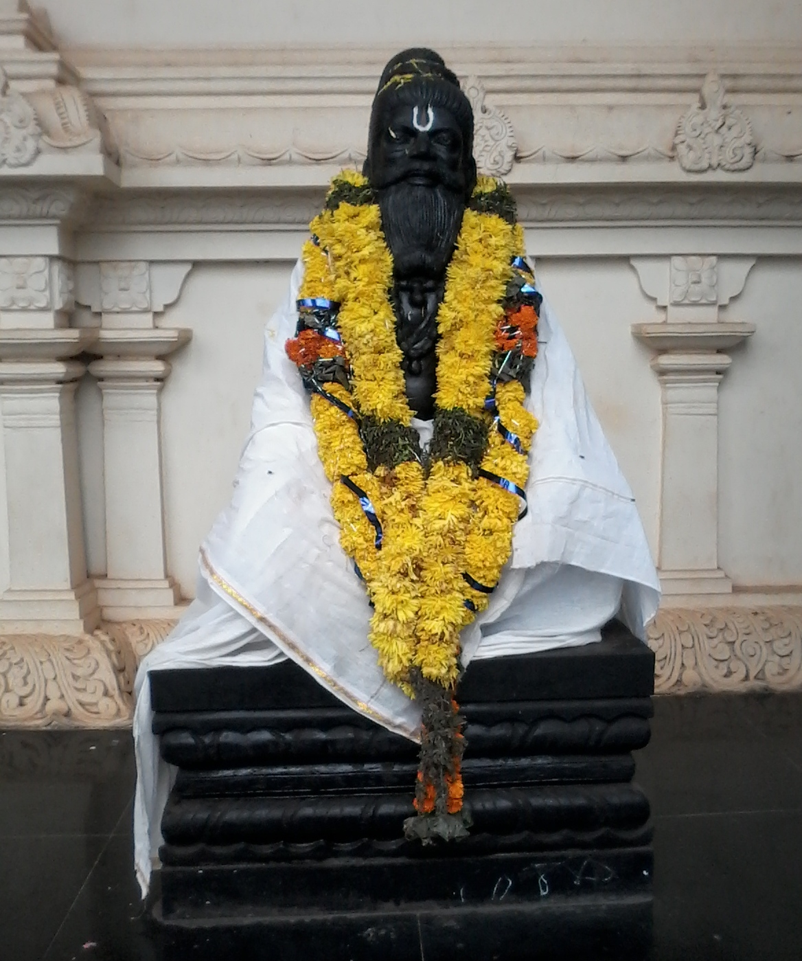 statue of dwaraka maharshi at lord venkateswara swamy temple, dwaraka tirumala